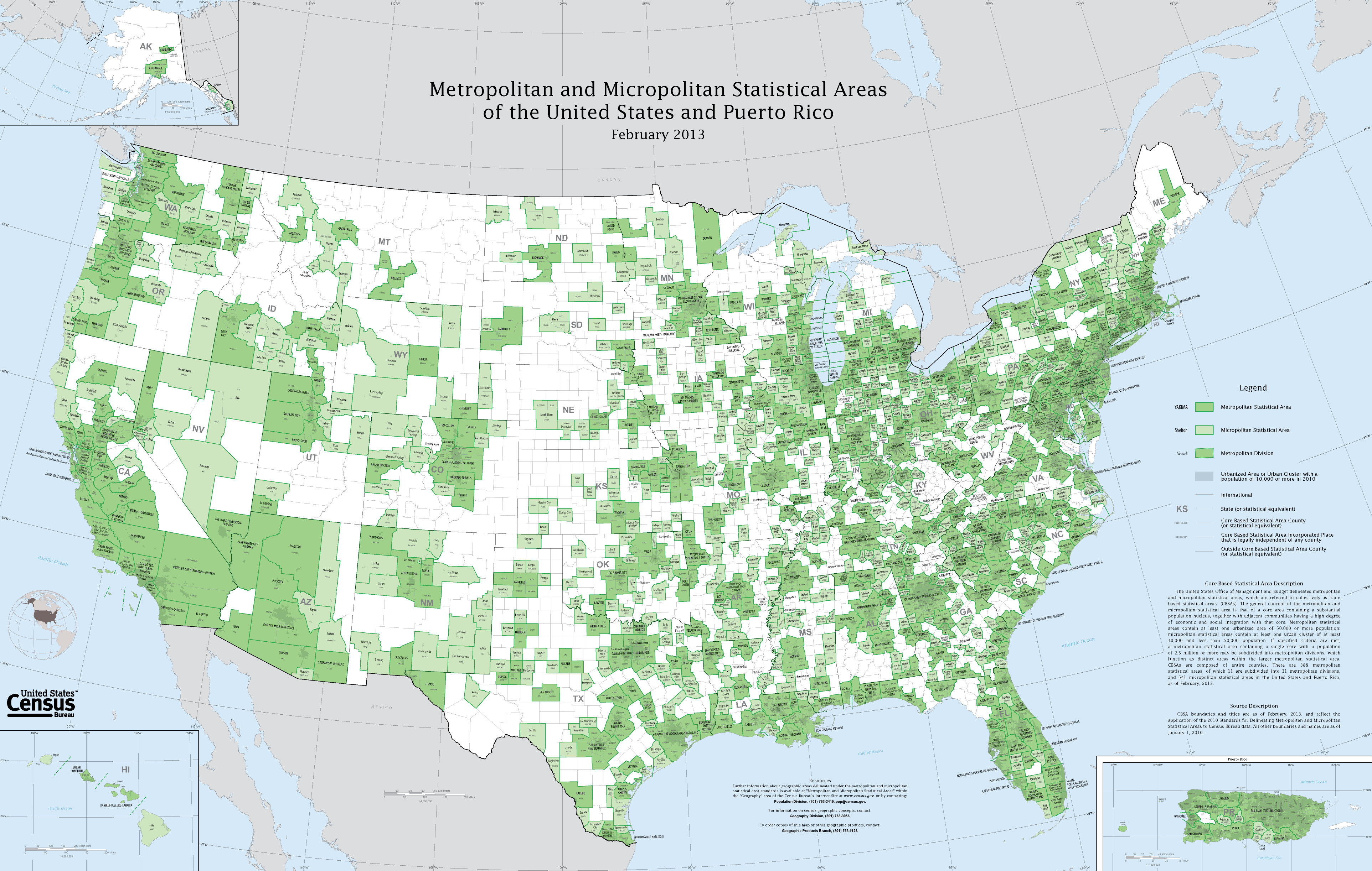 Metropolitan and Micropolitan Statistical Areas (CBSAs) of the United States and Puerto Rico, Feb 2013 High resolution vector PDF located at